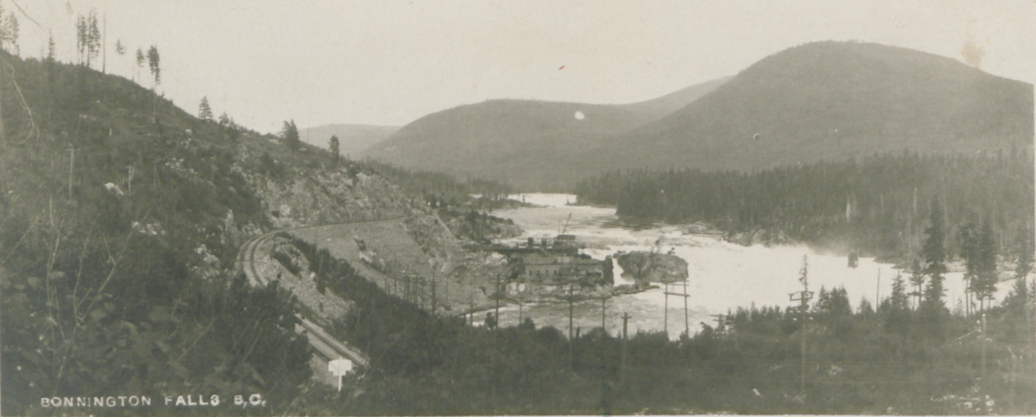 Original caption: “Bonnington Falls, Rossland, B. C.”